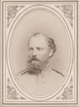 Plate 18 Photograph album of German and Austrian scientists. Dr. Carl Freiherr du Prel, München (Munich).